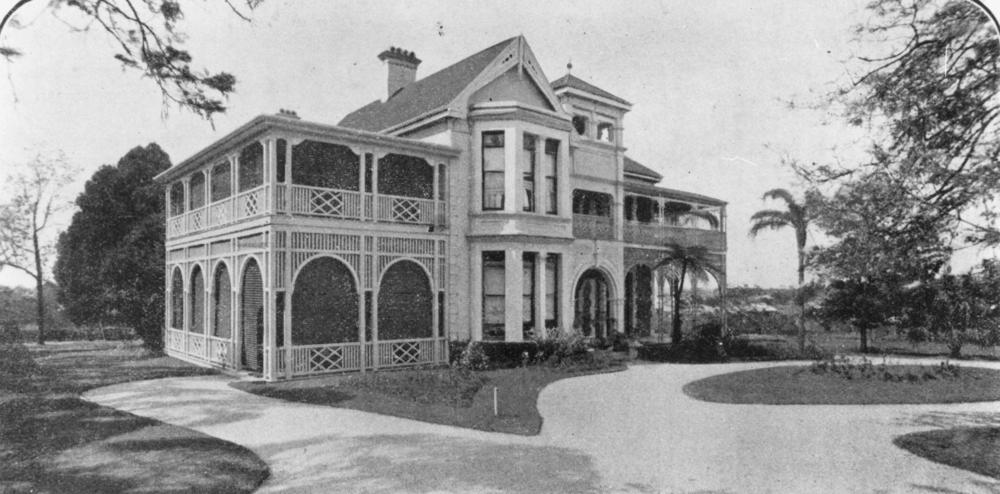 Brisbane residence, 'Glengariff', Hendra, 1923 View of the home and grounds of Brisbane residence, Glengariff, in 1923. The ornate gables, chimneys, verandahs, archways, and landscaped gardens are typical of the Federation era house.